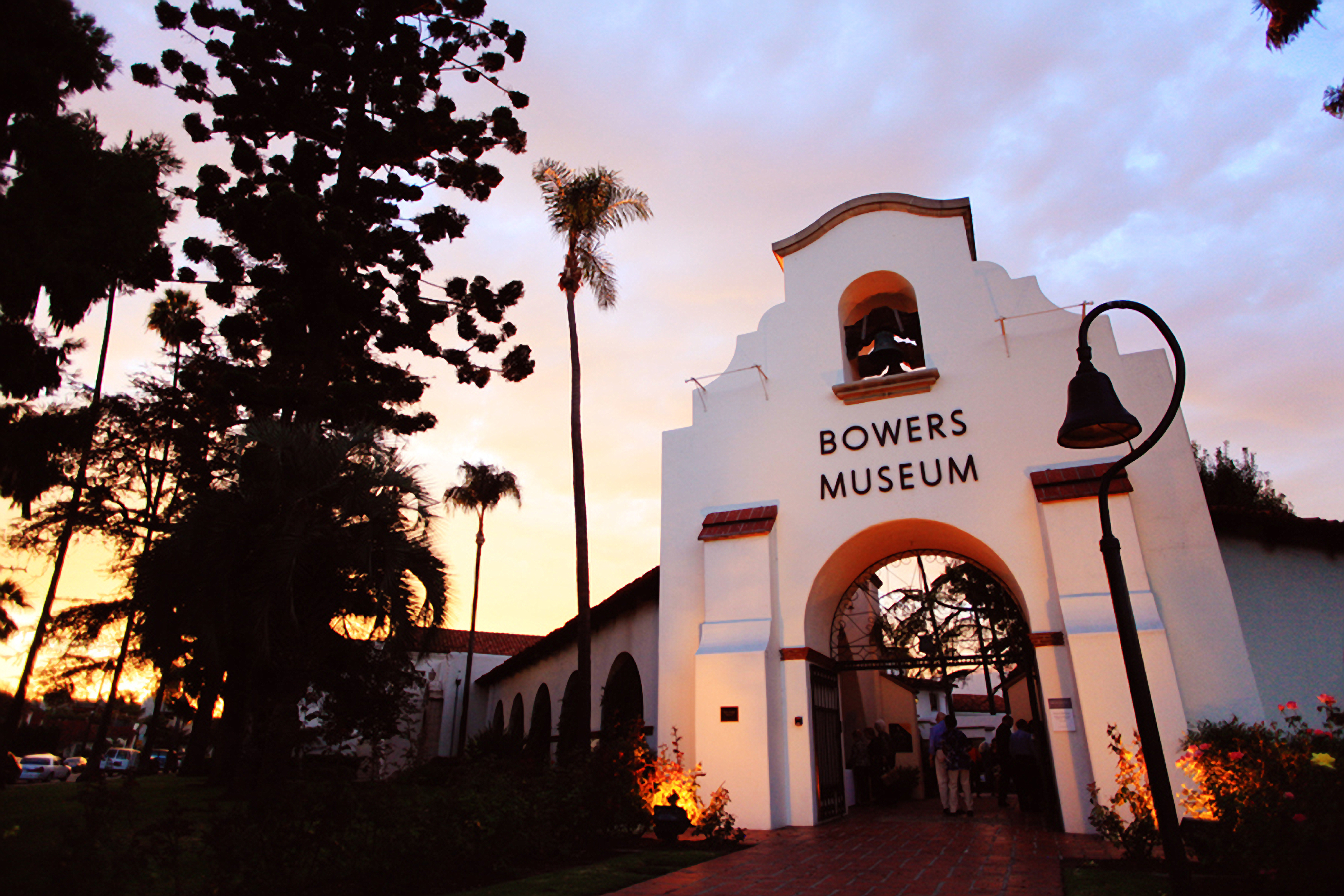 Historic Belltower Entrance to the Bowers Museum